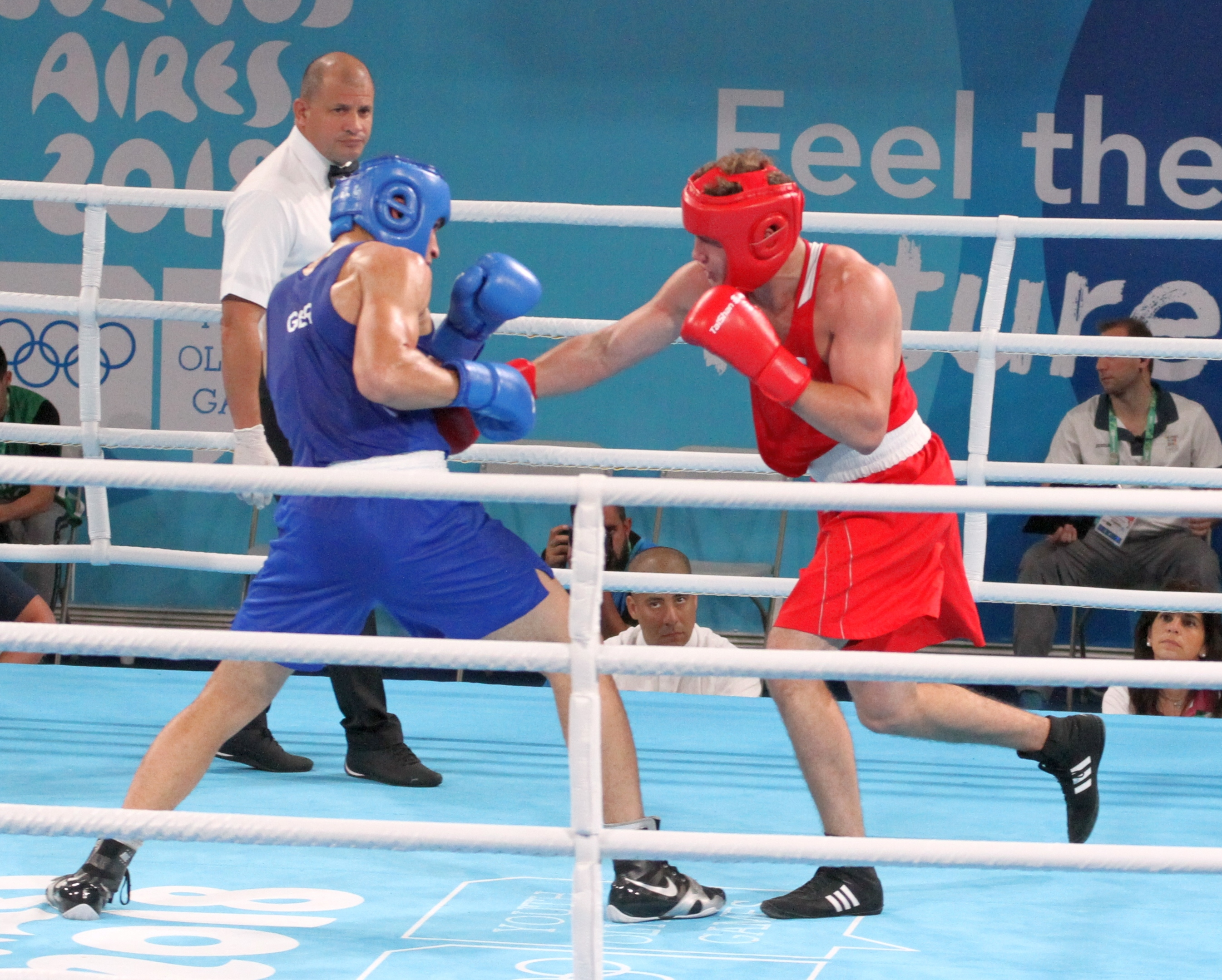 Boxing at the 2018 Summer Youth Olympics on 18 October 2018 – Gold Medail Match light heavyweight Boys - Karol Itauma (Great Britain, blue) beats Ruslan Kolesnikov (Russia, red) 4-1; Referee is Alejandro Barrientos (Cuba).